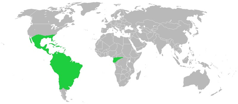 Geographic distribution of Bromeliaceae flora. Credits Map adapted from Bromeliaceae: Profile of an Adaptive Radiation by David H. Benzing of same. A PNG version of this image can be found here